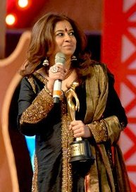 Indian singer Rekha Bhardwaj at the 2010 Airtel Mirchi Music Awards